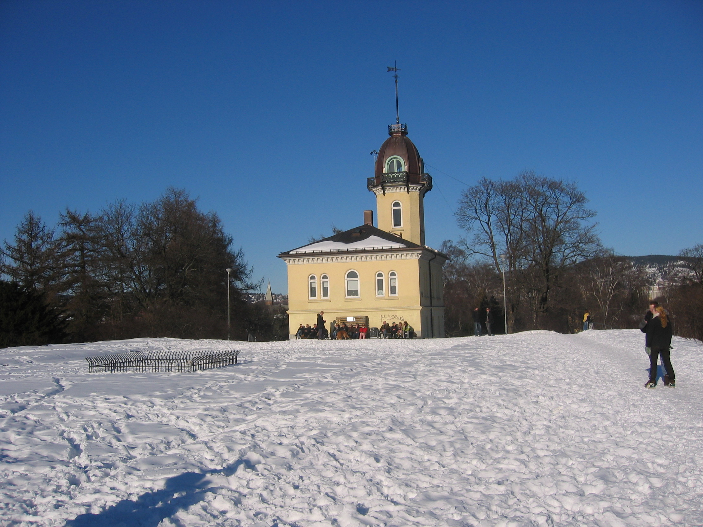 From St. Hanshaugen park, Oslo, Norway - License: GFDL content created by the uploader